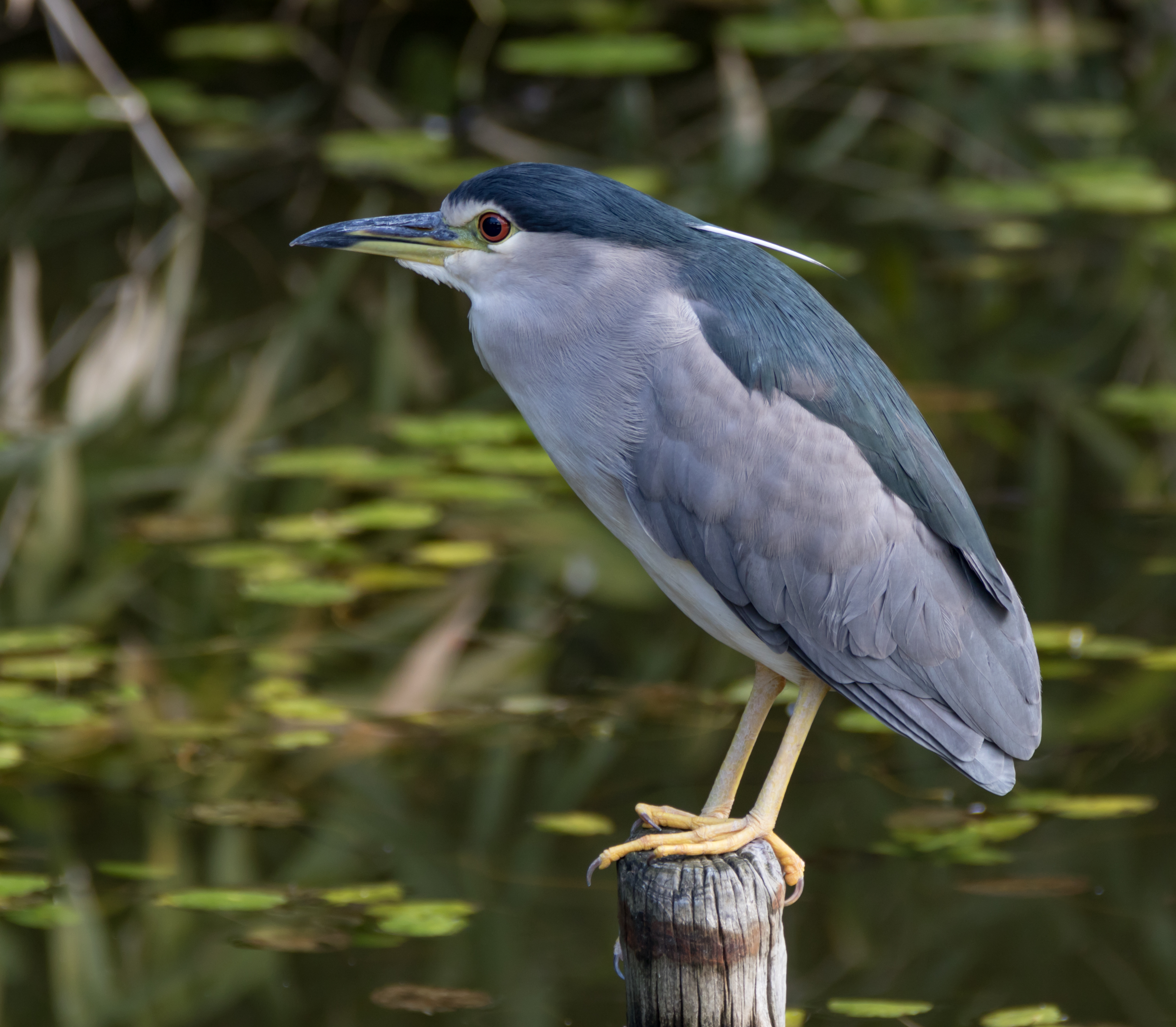 Black-crowned night heron at Tennōji Park in Osaka.